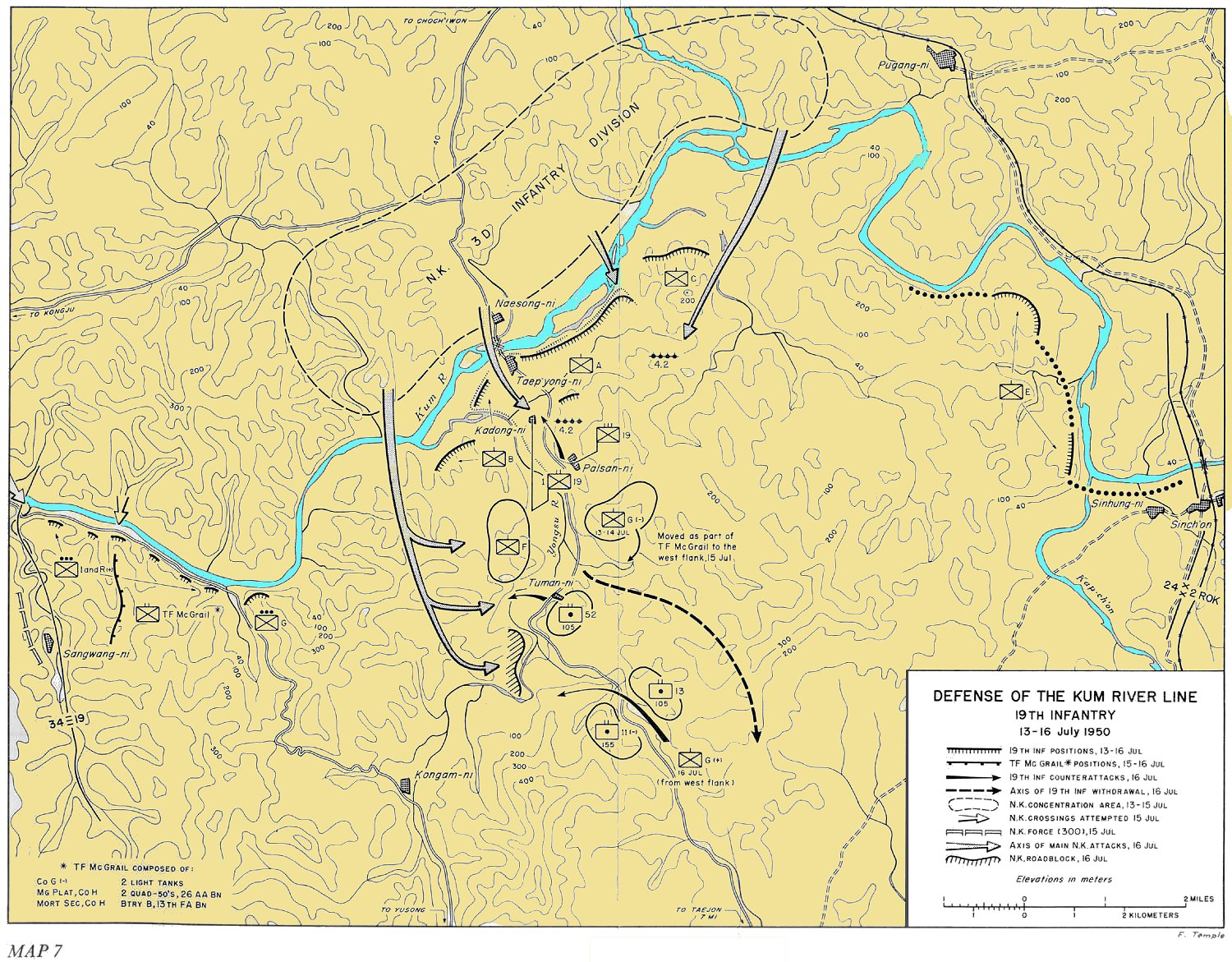 Defense of the Kum River Line, 19th Infantry - 13-16 July 1950